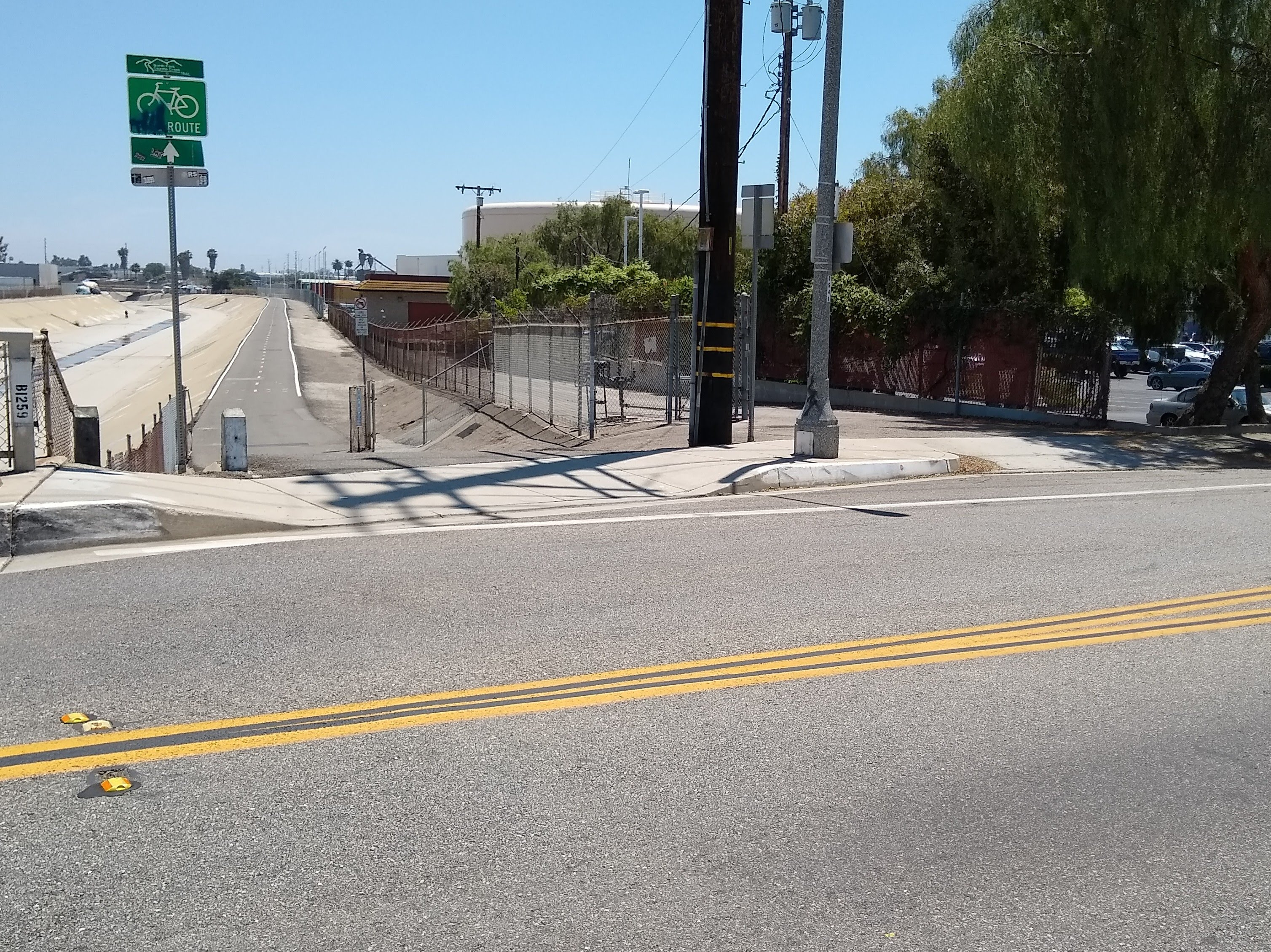 The Northern end of Coyote Creek is in an industrial area at Foster Road in Santa Fe Springs